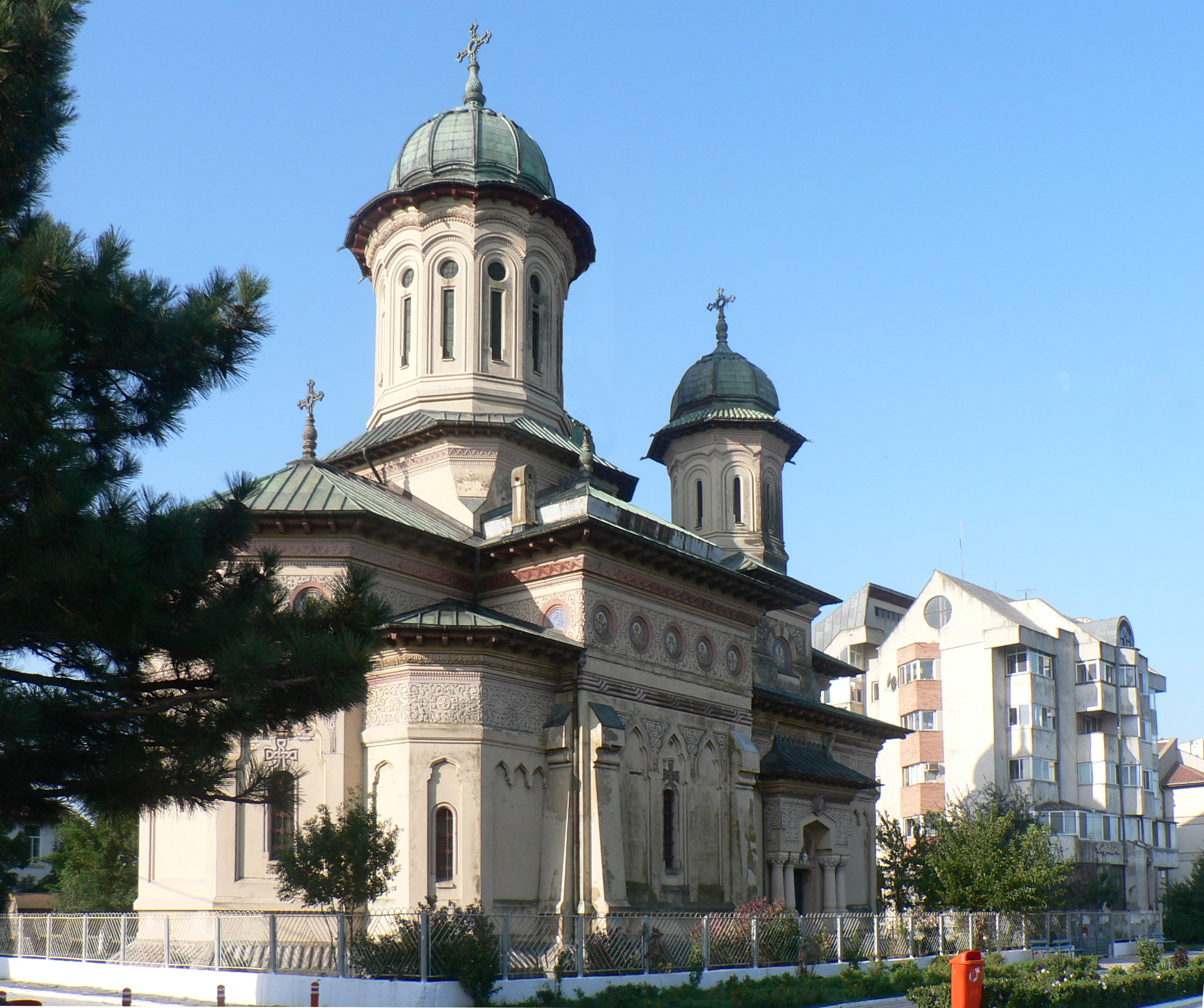 Orthodox church in Sulina